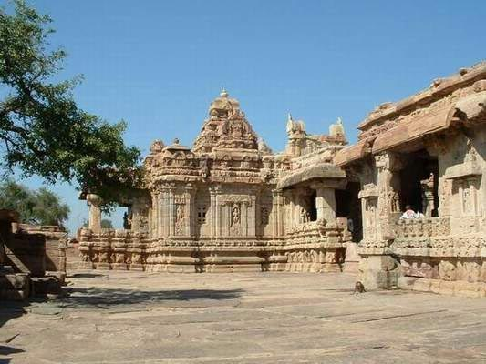 Pattadakal- Virupaksha Temple Photograph taken by me (KRS) in December 2003